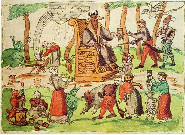 Depiction of the bedevilment.